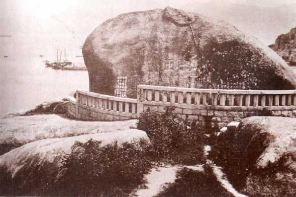 宋王臺原石，原石於1943年被日軍破壞，應為1943年或之前的作品。Sung Wong Toi Rock, Kowloon, c. 1920. The original boulder, depicted on this photograph, was for many years an important historic relic much esteemed and protected by the local community. The three large characters cut into a boulder have been interpreted as Terrace of the Sung King and, by local tradition, connected with the temporary sojourn in the area of the two boy-princes of the Song Dynasty. Many smaller inscriptions visible on the boulder, of lesser importance, were added later. During the Japanese occupation of Hong Kong, 1942-45, the boulder was dislodged when the hill was leveled. The part of the boulder containing the three characters survived the blasting operations and after the war was rescued and placed in a small park close to the original site. See also P66.26-29 (description source: Hong Kong:Museum of History via MMIS)